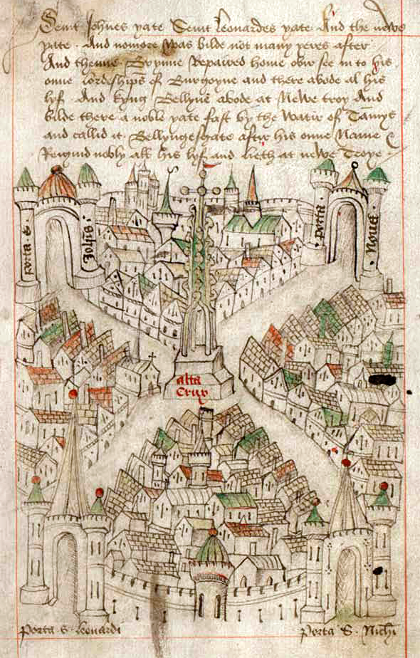 A 1478 Robert Ricart map of Bristol, England. Ricart was the common clerk of Bristol from 1478 to 1506.The map was published in the The Maire of Bristowe is Kalendar (dated c.1479). The original is in the folio Ricart's Maiores Kalendar and The Lord Mayors Calendar whose physical copy is at Bristol Record Office, B Bond Warehouse, Smeaton Road, Bristol BS1 6XN. The document is reference number 04720 in the Office's catalogue.This bird's-eye plan of Bristol is the earliest known of a complete town. It depicts churches and houses surrounded by city walls and gates: St Nicholas's Gate bottom right; St Leonard's Gate bottom left; St John's Gate top left; and Porta Nova (the New Gate) top right. Shown are the main streets of Broad Street, Wine Street, Corn Street and High Street, converging on the High Cross (Alta Crux, St Andrew's Cross), the place of executions. Text (in modern English): St John's Gate, St Leonard's Gate, and the New Gate, and ... was built not many years after and then Deynise (?) repaired home overseas into his own lordship of Burgoyne and there abode all his life and King Bellyne abode at New Troy (i.e. London?) and built there a noble gate by the Water of Thames and called it Billingsgate after his own name and reigned nobly all his life and ... at New Troy""